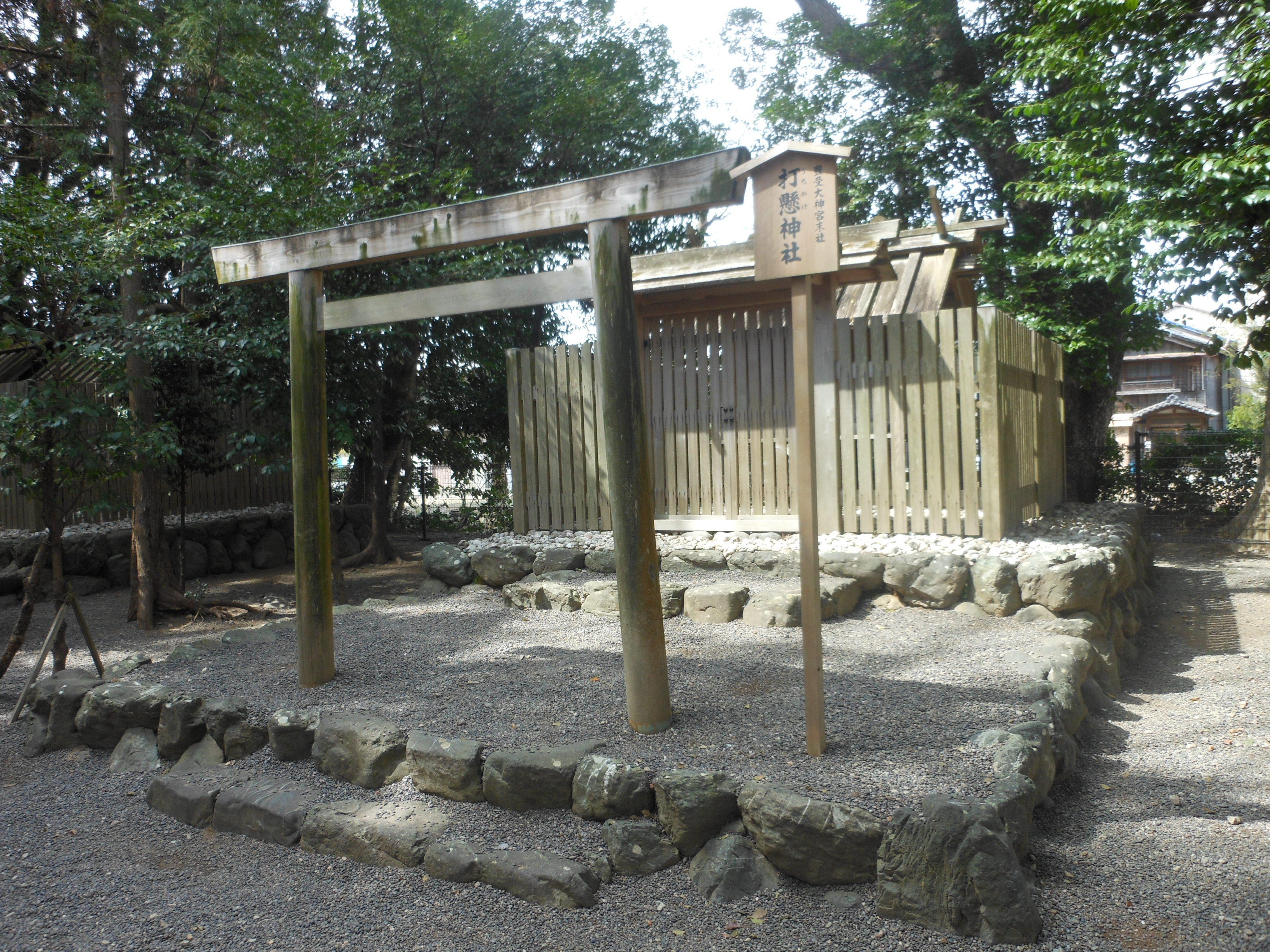 This is the Uchikake shrine, which is located in Tsujikuru, Ise, Mie, Japan.